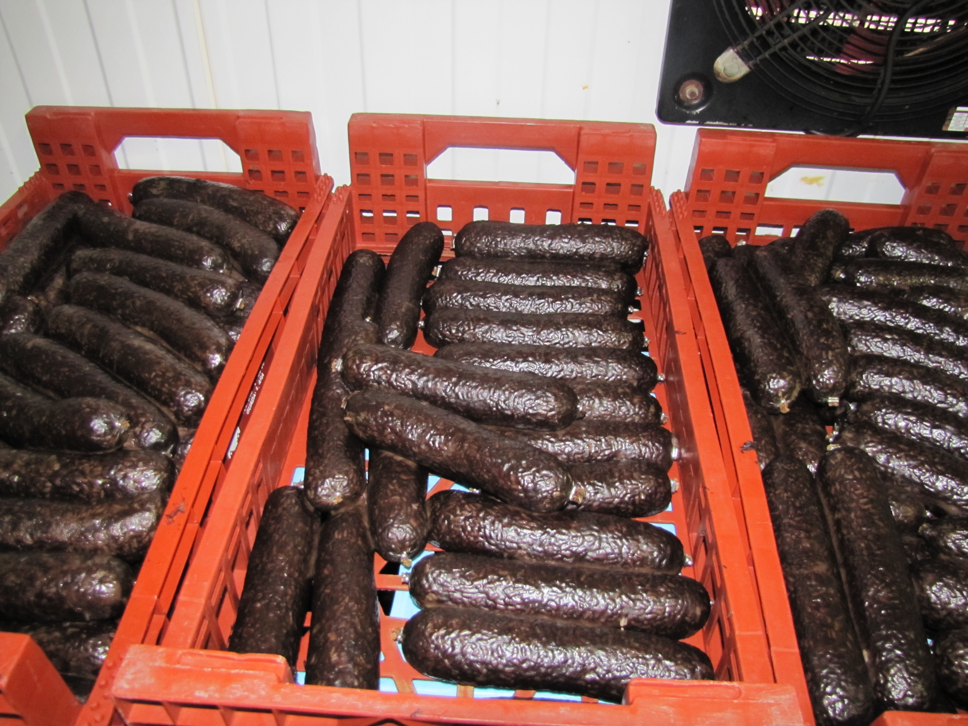 Black Pudding of Aranda (Burgos)